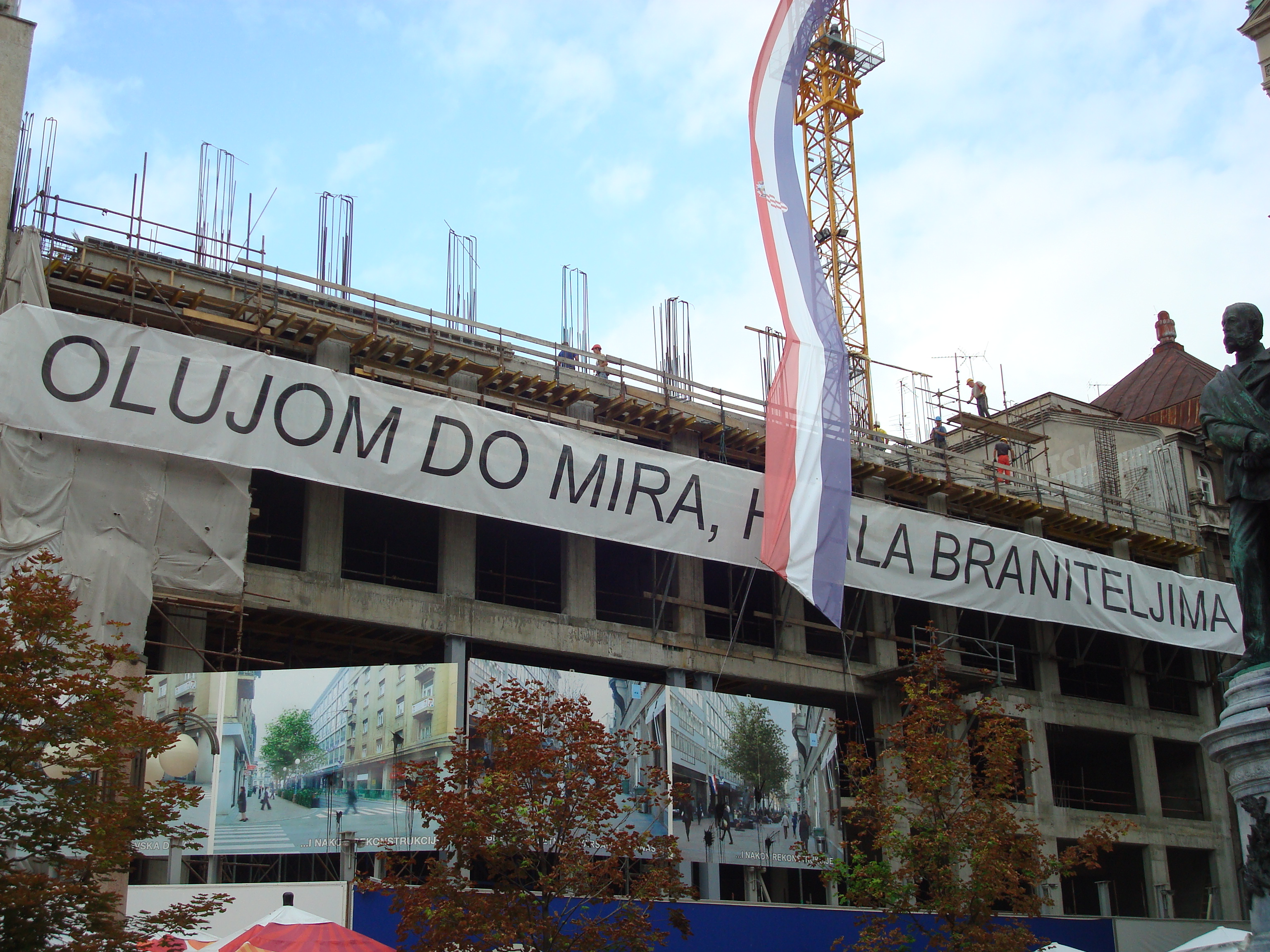 A giant banner in Zagreb commemorates the 15th anniversary of the military operation "Operation Storm" (4-7 August 1995), which ended the Croatian War of Independence. The banner says: "With (Operation) Storm to peace. Thank you, defenders."